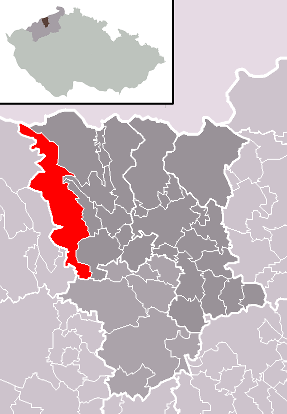 Location of Osek town within Teplice District and administrative area of Teplice as a Municipality with Extended Competence.